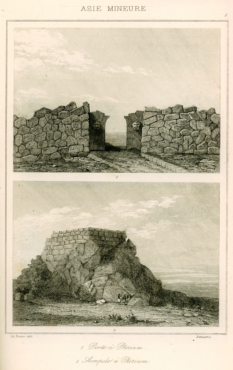 Félix Marie Charles Texier. Asie Mineure. Description géographique, historique et archéologique des provinces et des villes de la Chersonnèse d’Asie, Paris, Firmin-Didot, MDCCCLXXXII (1882).